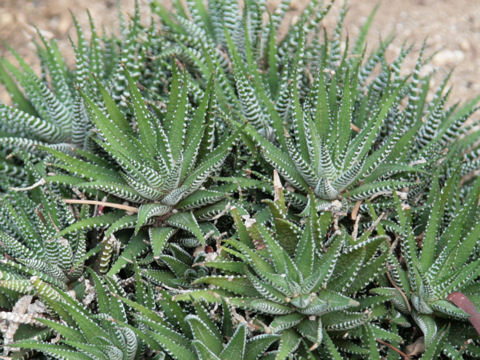 Haworthia attenuata